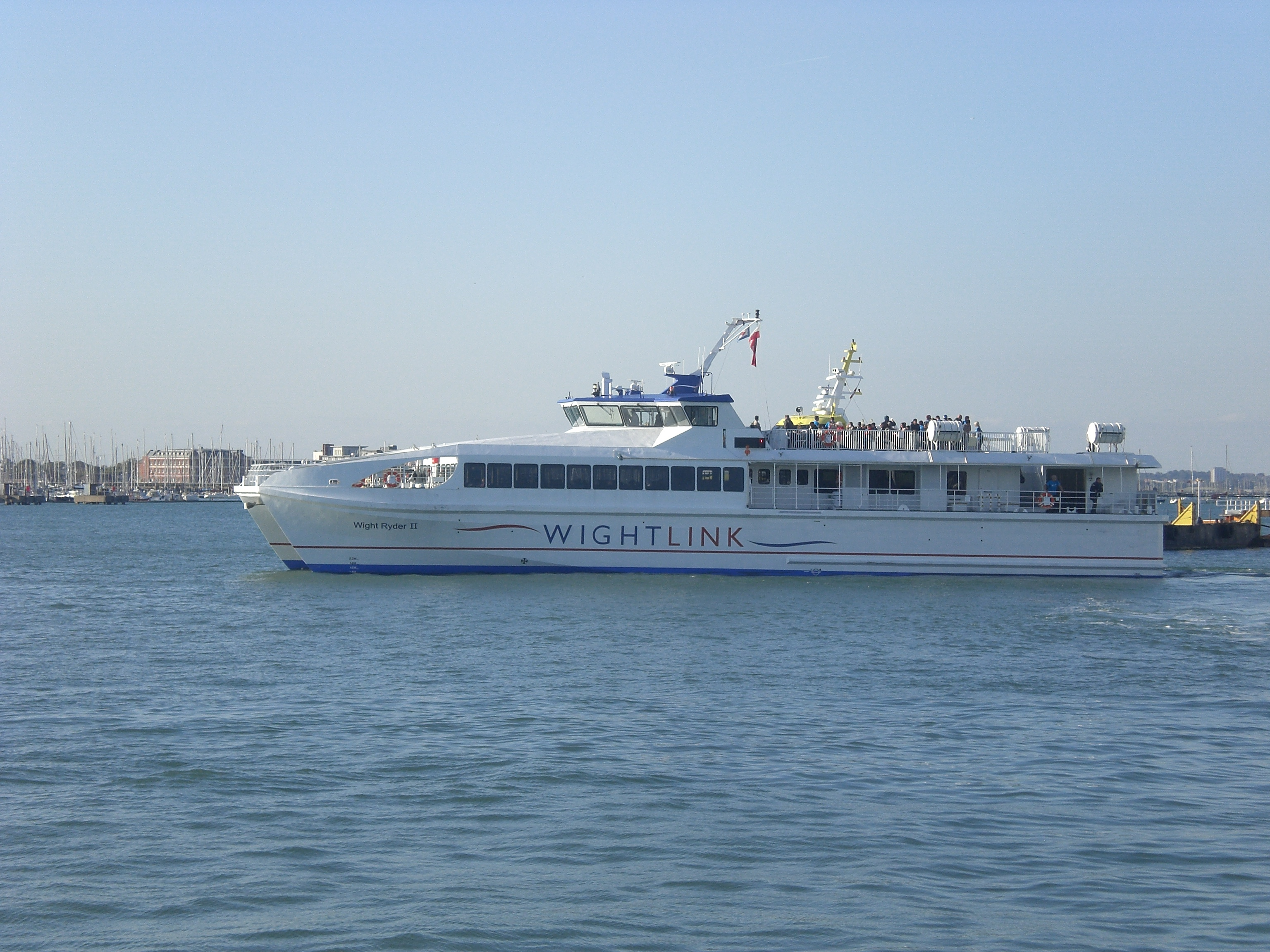 Wightlink's Wight Ryder II in Portsmouth Harbour en route to the Isle of Wight.